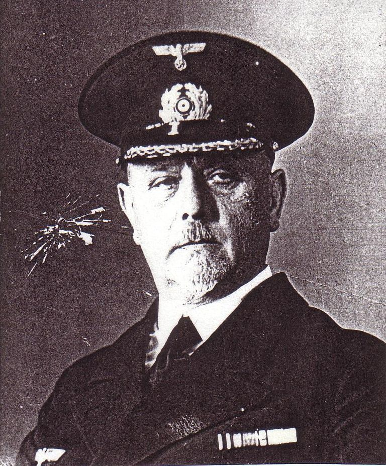 Portrait of Hugo von Waldeyer-Hartz